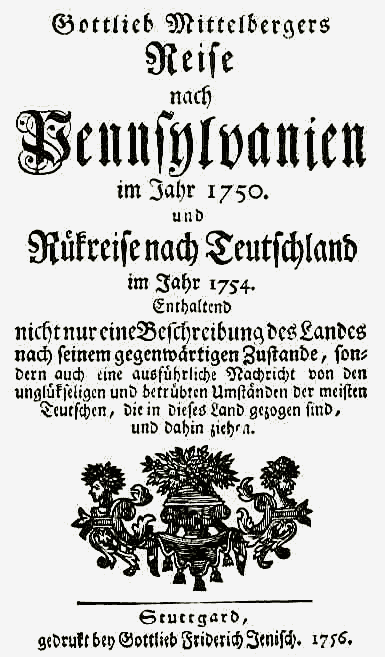 Title Page of Gottlieb Mittelberger's Journey to Pennsylvania. There is only text in the picture — in blackletter script.